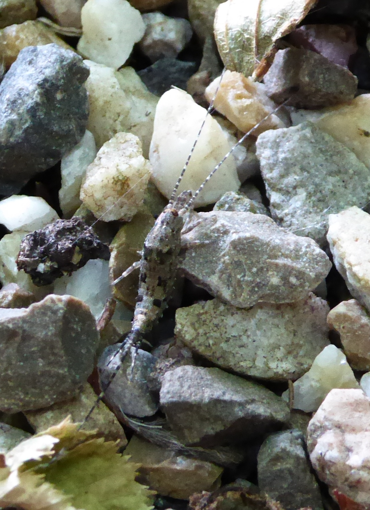 Trigoniophthalmus alternatus (Machilidae) from Germany (Heidelberg)